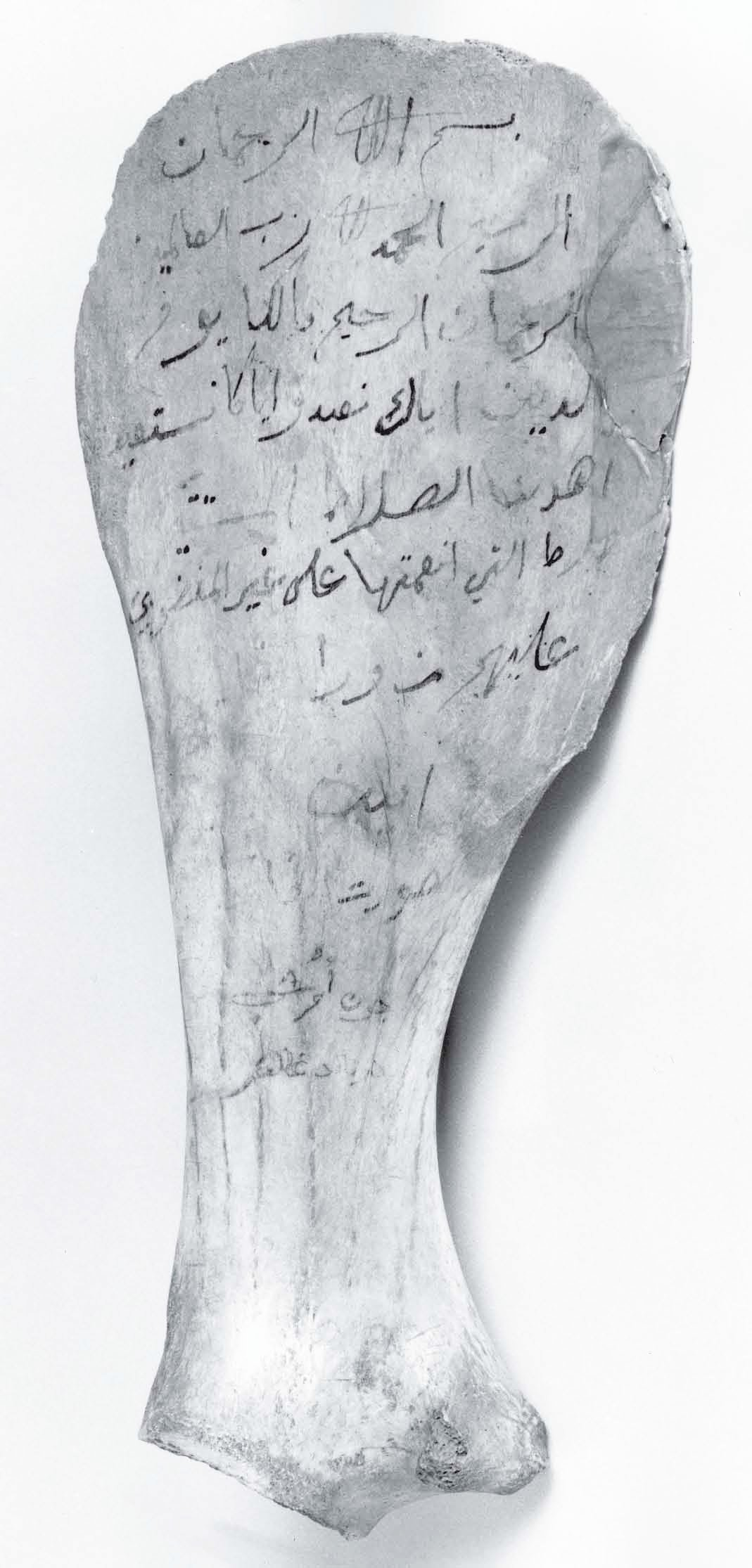 « Shoulder blade (scapula) of a camel on which is inscribed the [Sūrat al-]Fātiḥa in black ink. Unrefined script; text not vocalized. This item is of the type from which sections of the Koran were collected and compiled in the eighth century C.E. Items of this type continued in use in North Africa into this centuryIncipit:بسم الله الرحمن الرحيم الحمد لله رب العالمين ... Explicit:صراط التى انعمتها على (؟) غير المغضوب عليهم من ورا (؟) الضال[ين] امين. صورت الفاتح[ة][؟]جون اوحي(؟)هو تالد غلاقه(؟ » [1].